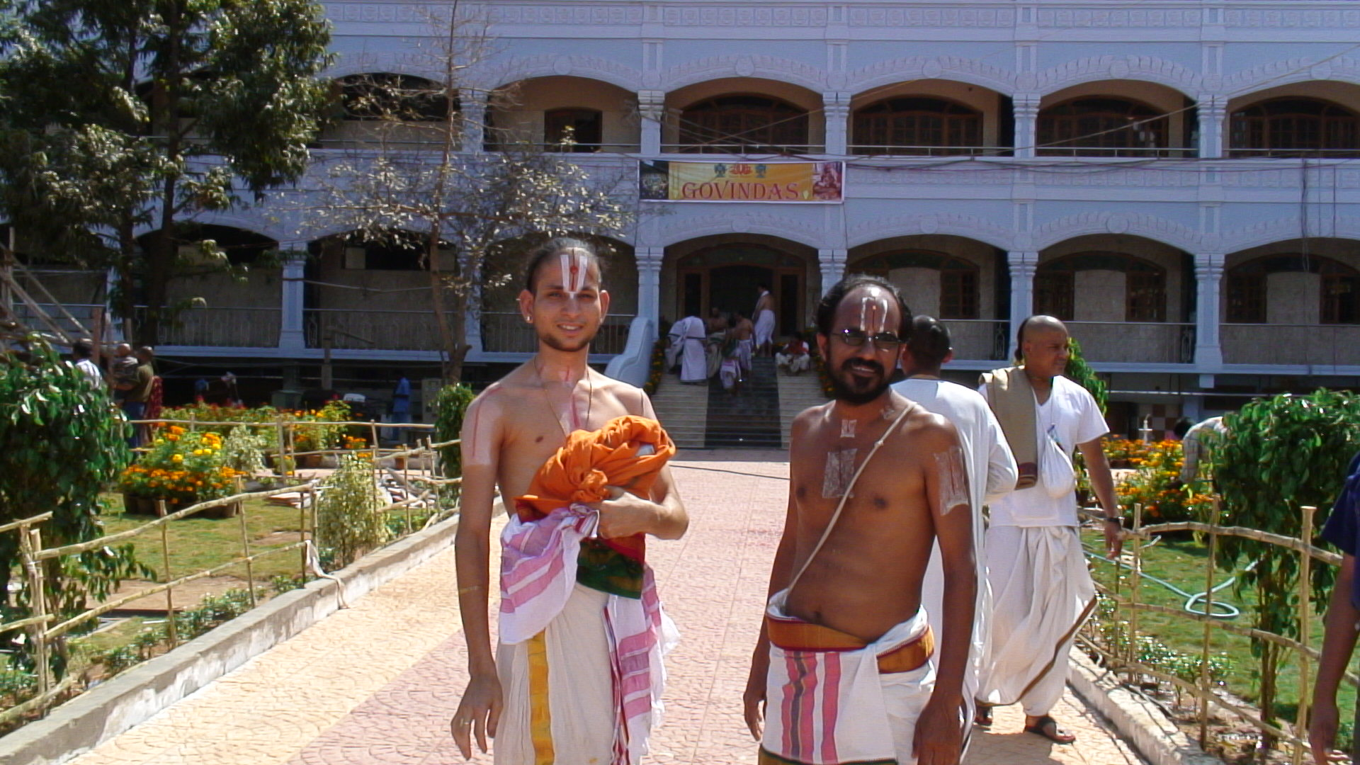 Two brahmana priests from Venkateshvara (Balaji) temple at ISKCON Tirupati temple opening festival